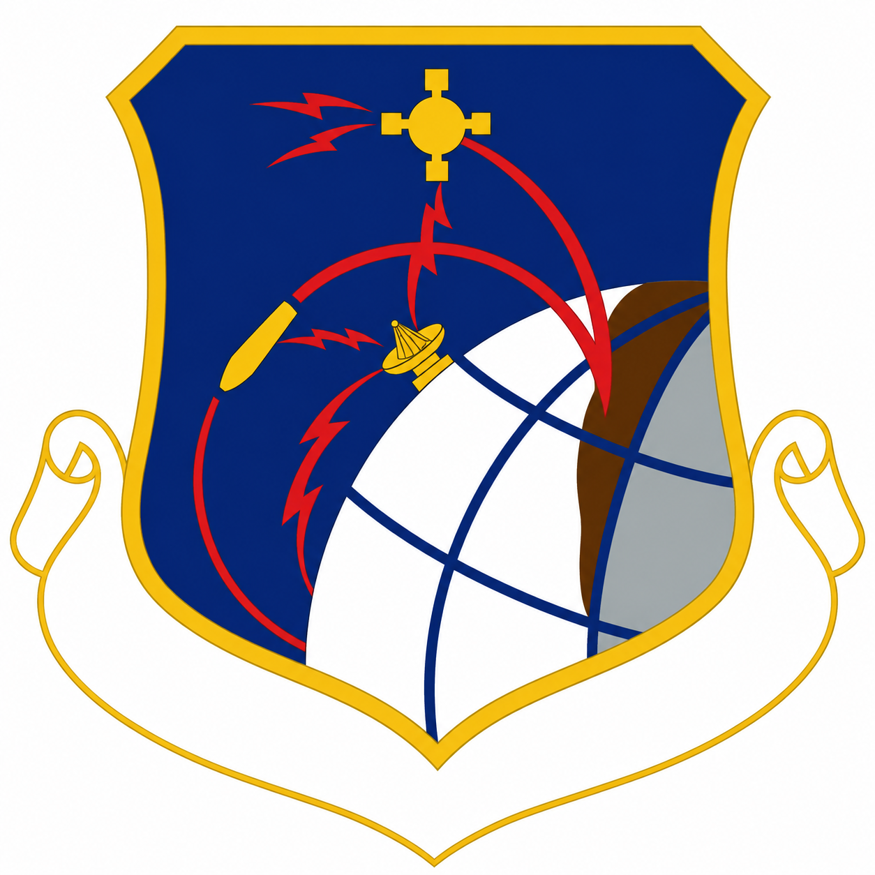 Western Test Range emblem. Published August 1987.